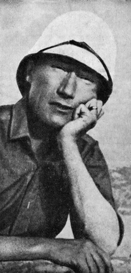 Andre Gide, ca 1930